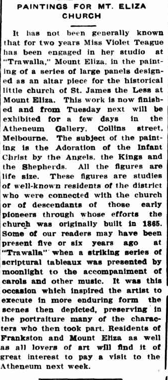 A newspaper article discussing the altar paintings by Violet Teague done in Mt Eliza for churches.